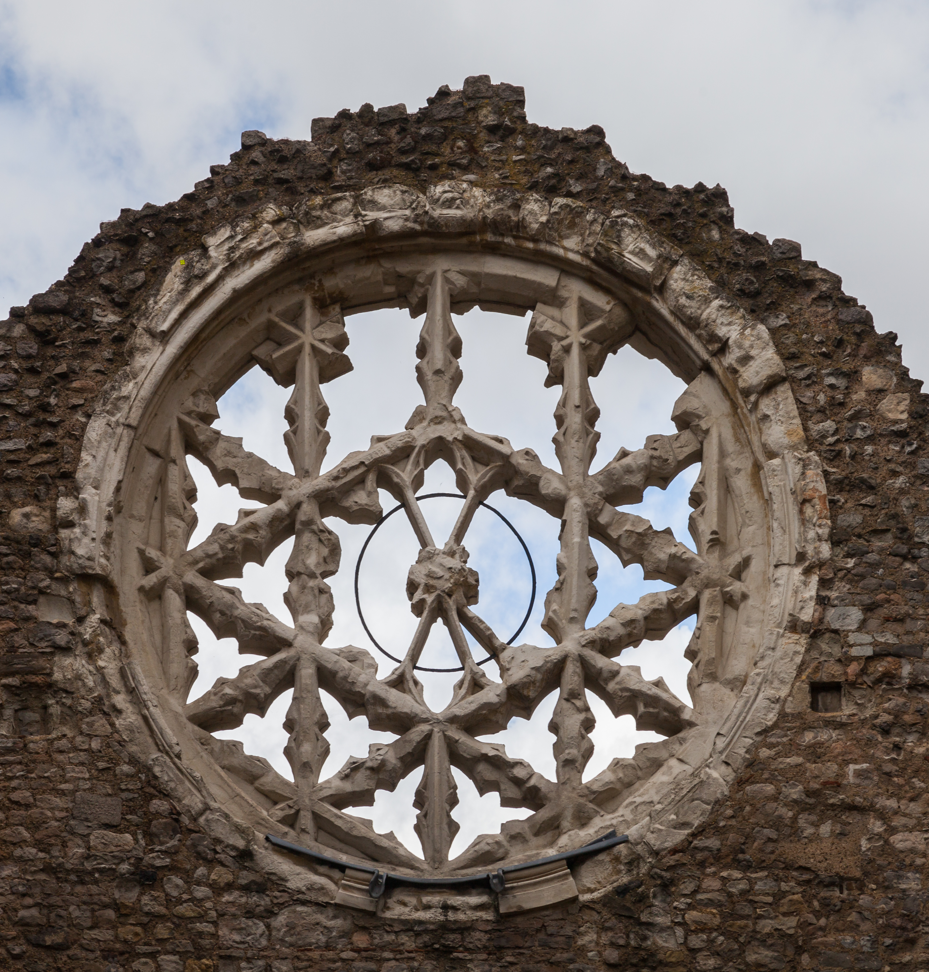 Winchester Palace, London, England